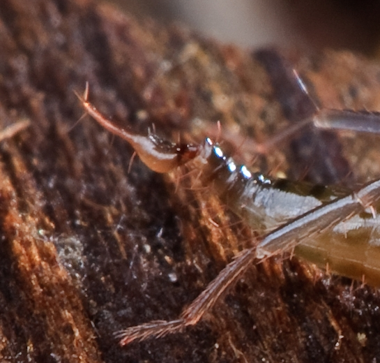 Flagellum of male schizomid Hubbardia pentapeltis. Photo taken in College Heights, San Diego, California, USA.